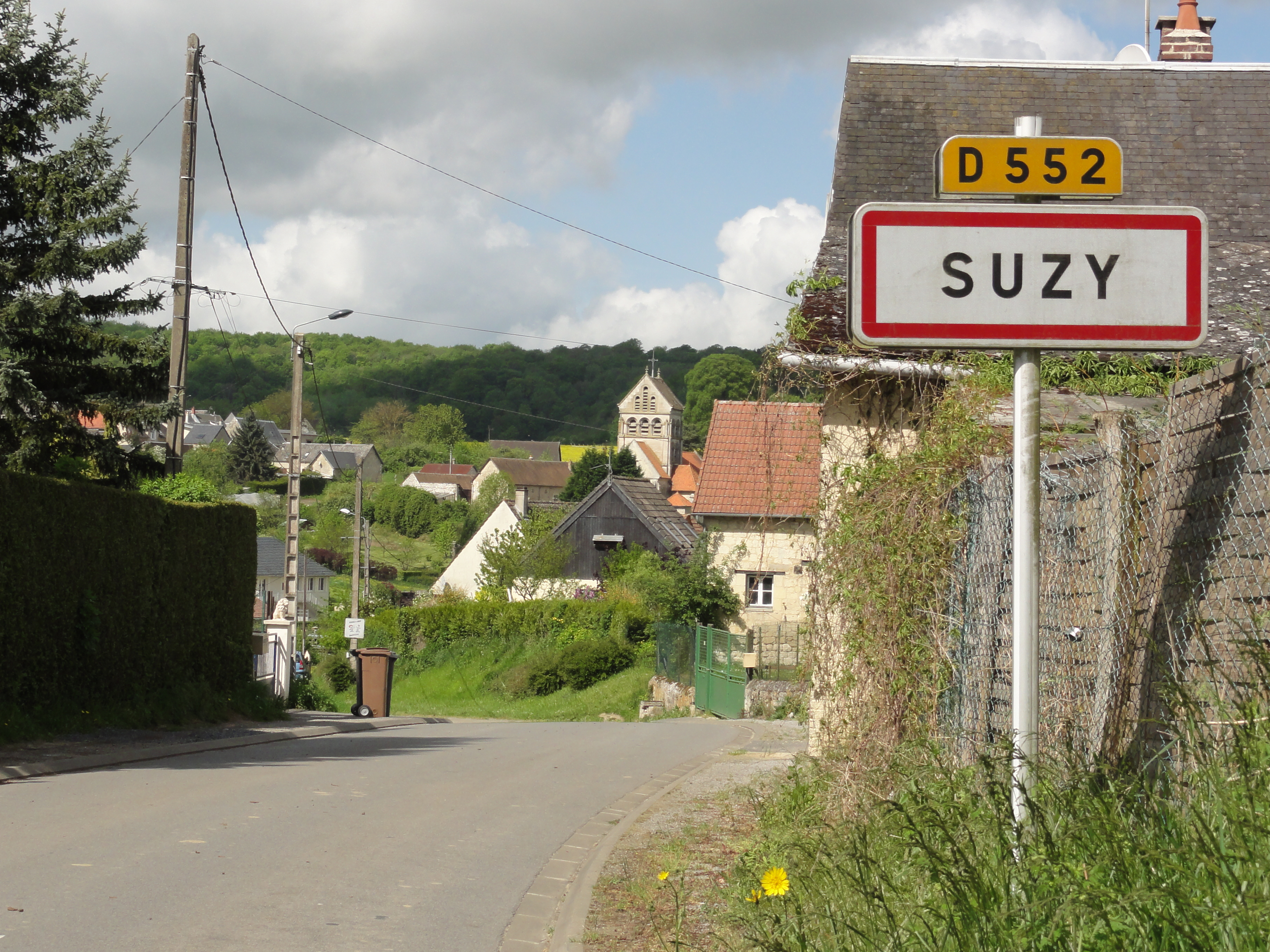 Suzy (Aisne) city limit sign